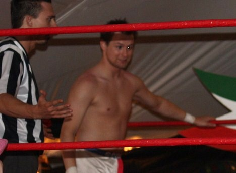 Zach Gowen prior to a match on June 5, 2010. Cropped from original photo.